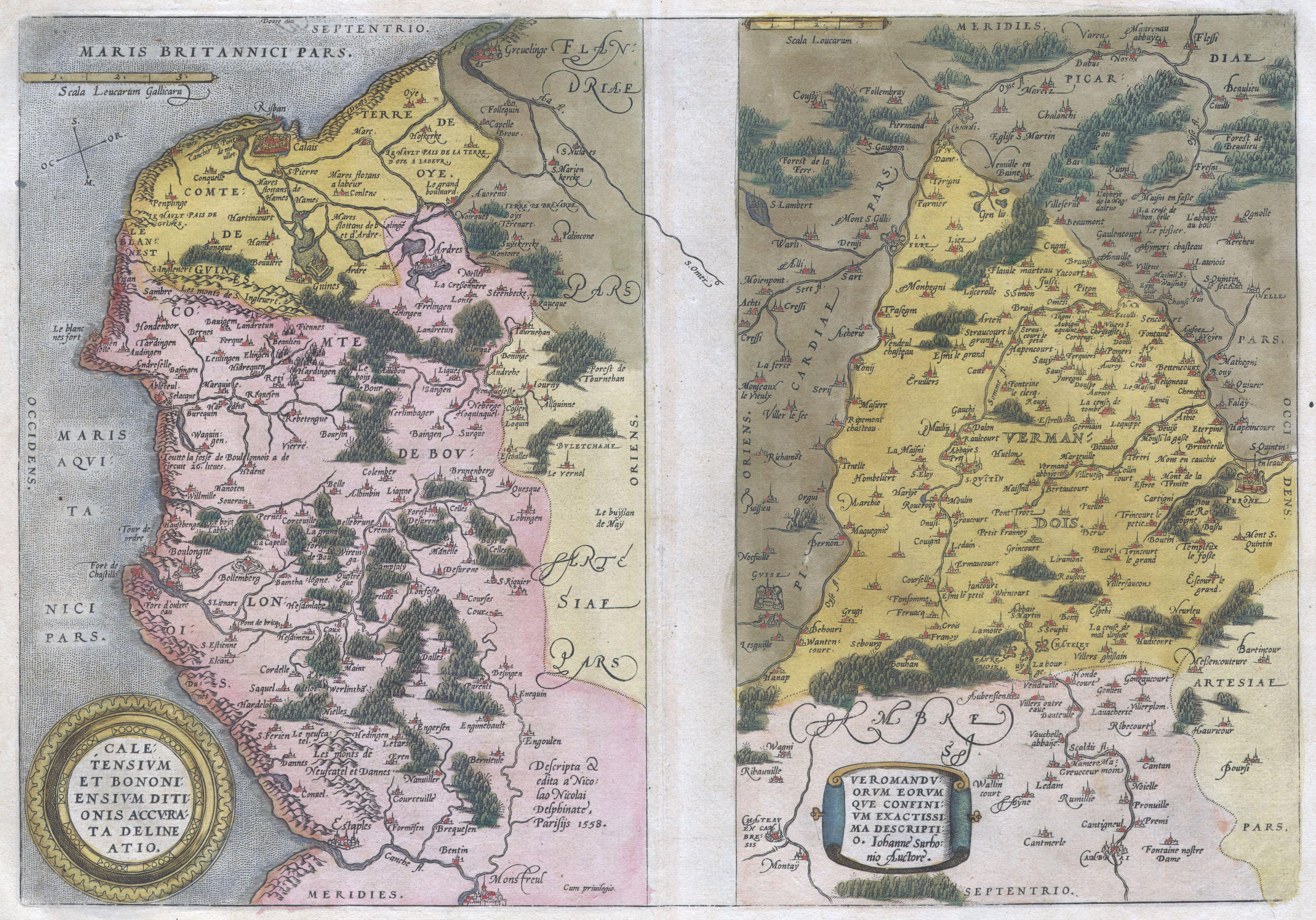 Two rare regional Abraham Ortelius maps on a single folio sheet. Left map, entitled Caletensium,depicts the French and Belgian coastline from Estables to Calais. Cartographically based upon a four sheet map issued by Nicholas de Nicolay. The right map, entitled Veromandorum, depicts the immediate vicinity of Saint-Quentin in northern France. This map is based upon the cartographic work of Jean de Surhon who was commissioned by the crown to map the region in 1557. Each map features a decorative title cartouche in the lower left quadrant. Both maps show their respective regions in wonderful detail with attention to forest cities, roads, rivers and villages. Published in Antwerp by A. Ortelius in 1579 for issue in his seminal atlas Theatrum Orbis Terrarum.